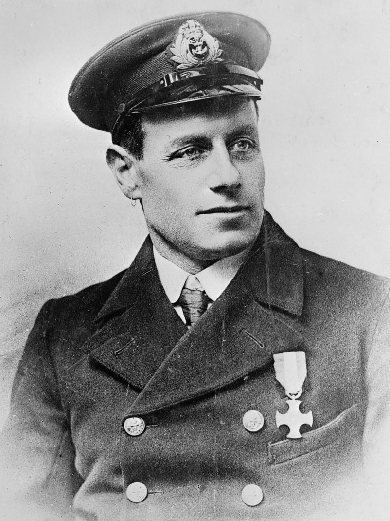 Photo of Victoria Cross recipient Thomas Crisp RN.